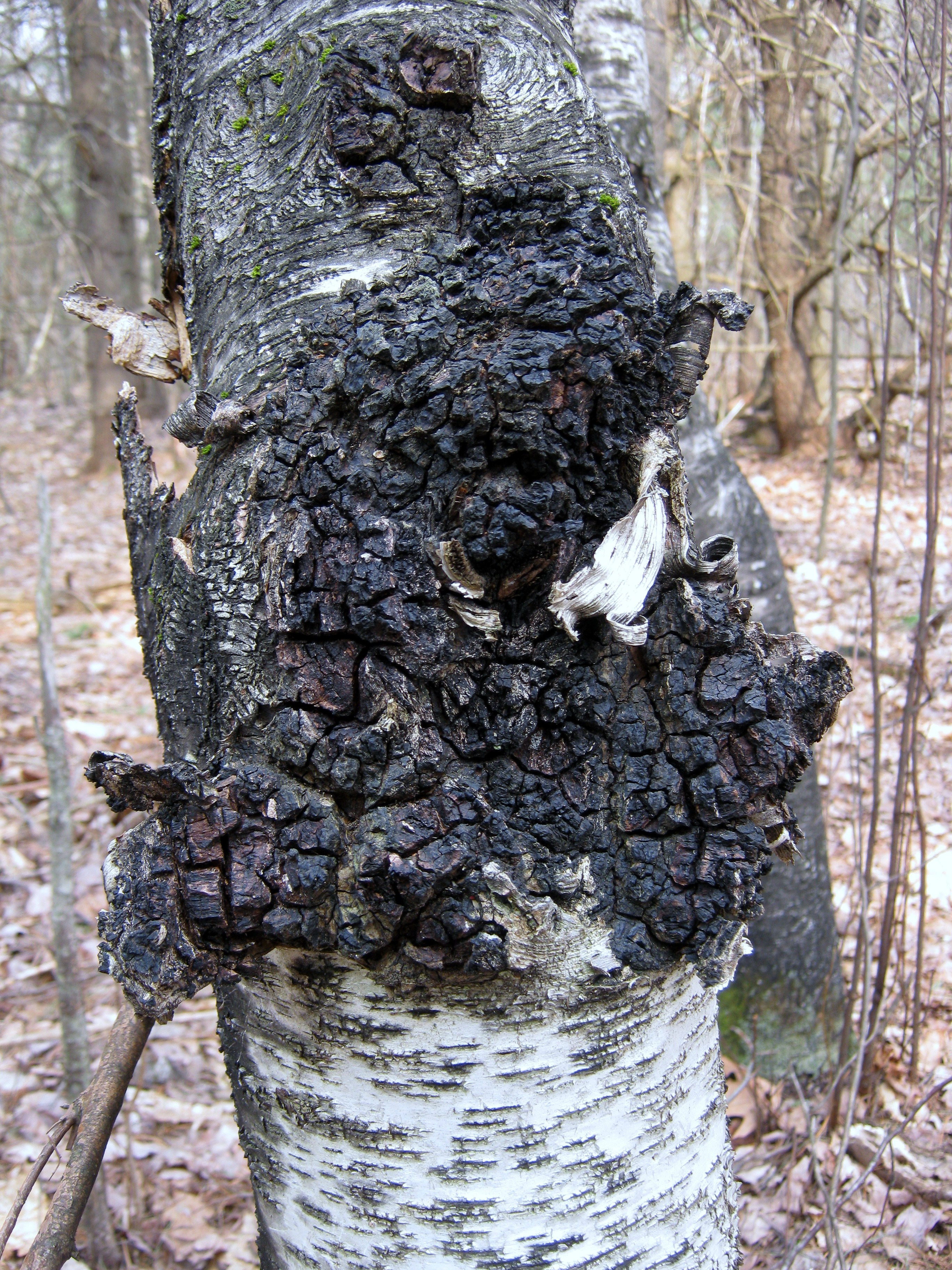 Inonotus obliquus (Ach. ex Pers.) Pilát Location: Maine, USA For more information about this, see the observation page at Mushroom Observer.